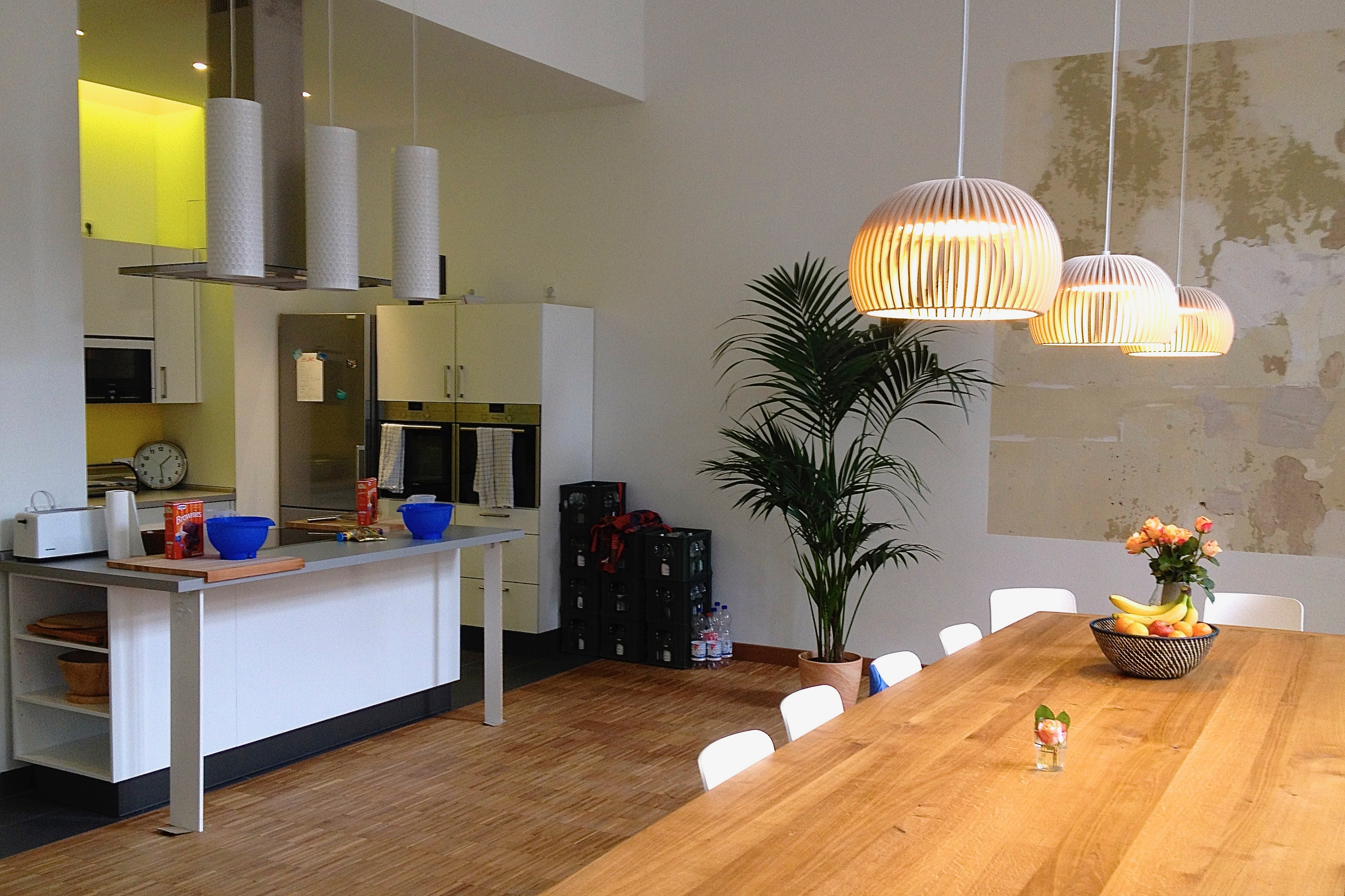 Eat-in kitchen of the Soteria in Berlin, Germany. Alternative inpatient treatment of people in psychotic crises.